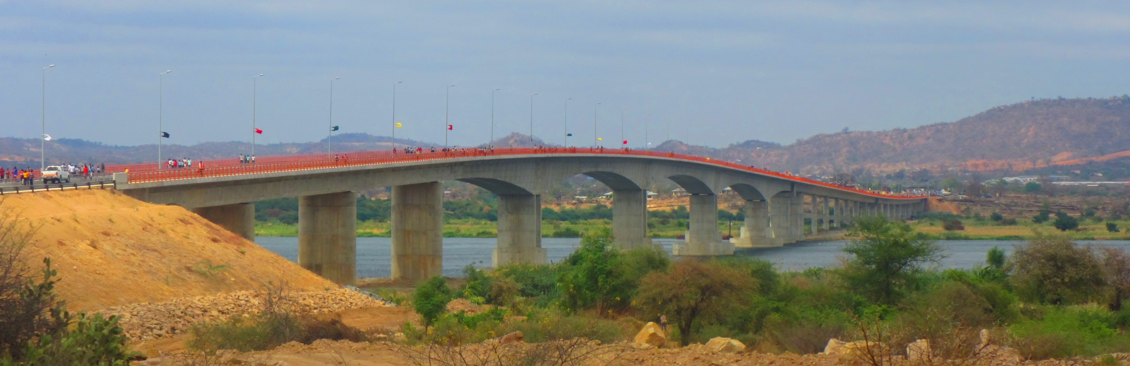 Bridge "Ponte Kassuende" close to Tete city, Tete province, Mozambique